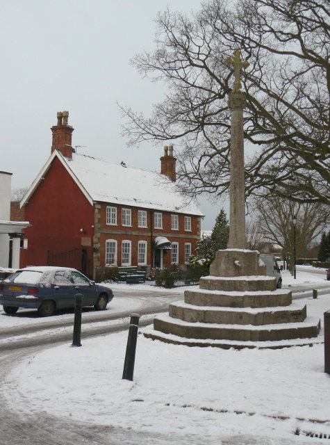 Tattershall Cross